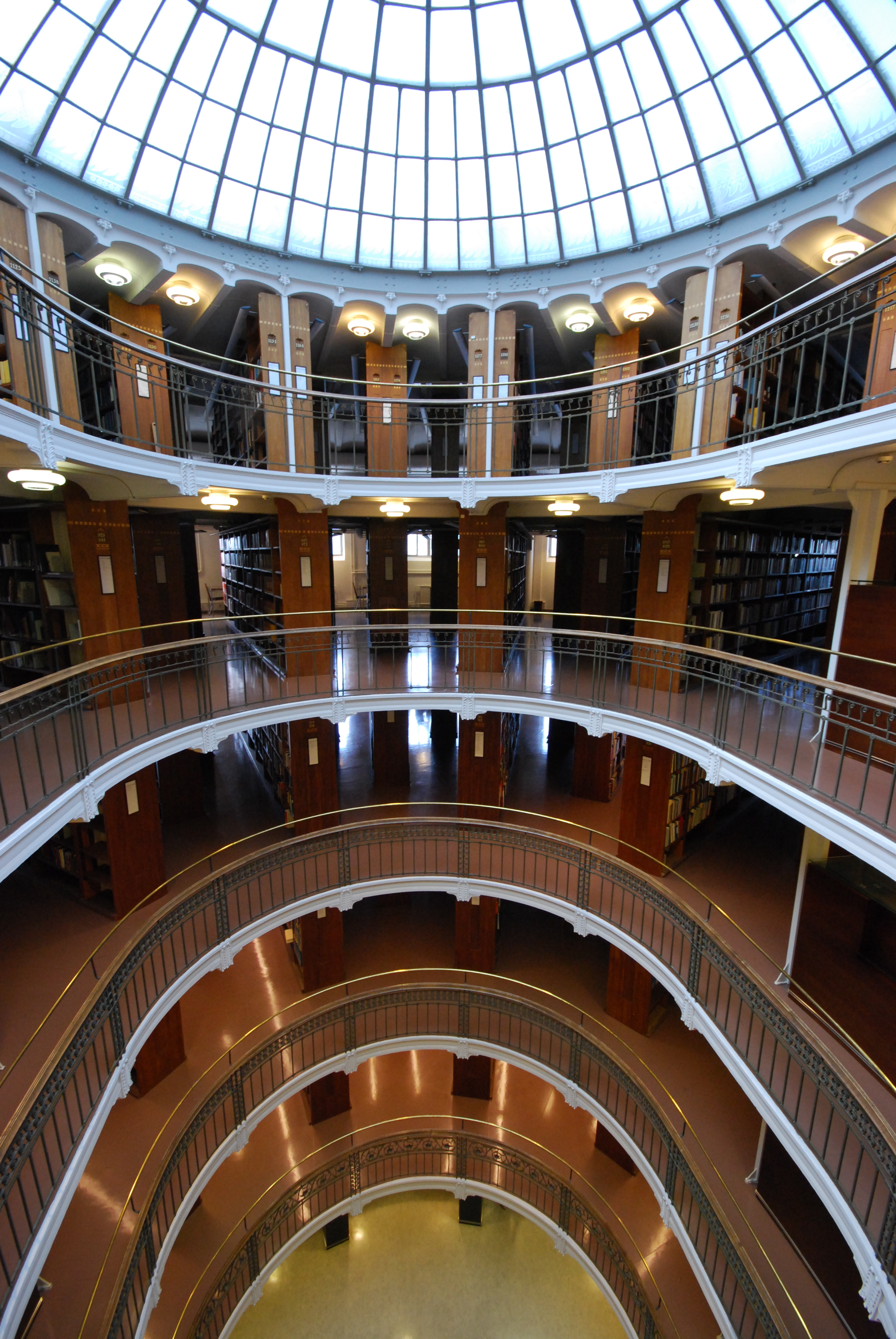 From The National Library of Finland, Helsinki, Finland